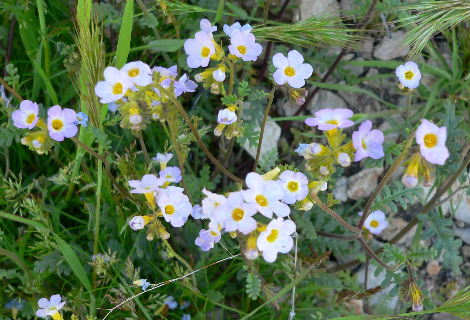 Photo of Phacelia fremontii on the west side of Las Vegas, Nevada, just outside Red Rock Canyon